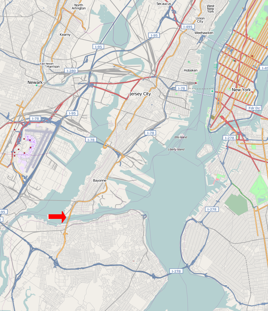 This map of the Bayonne Bridge and Surrounding Area was created from OpenStreetMap project data, collected by the community. This map may be incomplete, and may contain errors. Don't rely solely on it for navigation.